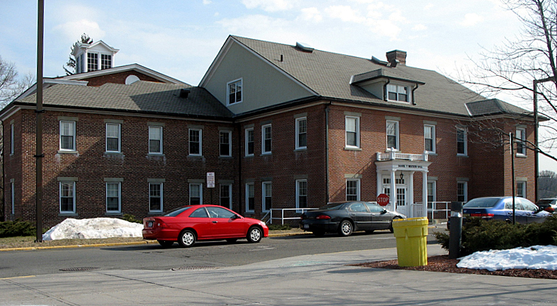 Daniel T. Brucker Hall at SUNY RCC.